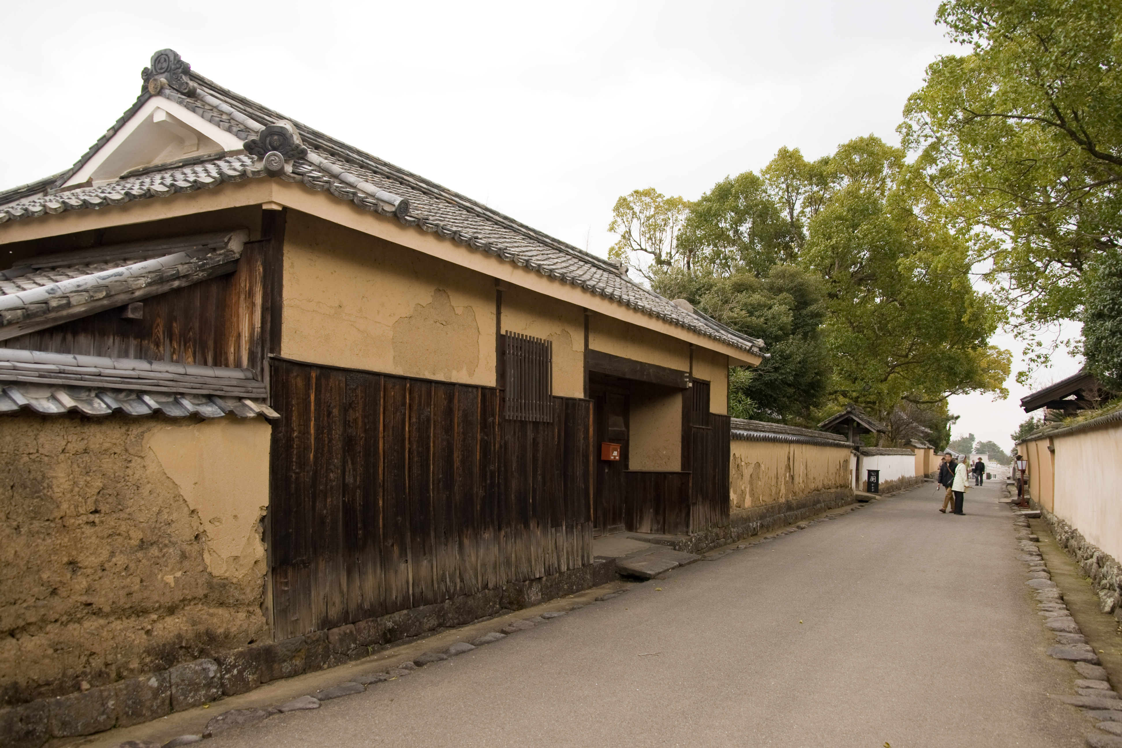 Castle Town of Kitsuki, Kitsuki City, Oita Pref., Japan.